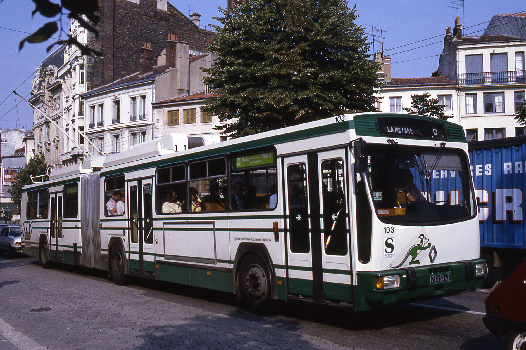 A Renault PER180H dual-mode trolleybus (No. 103) of St. Etienne, France